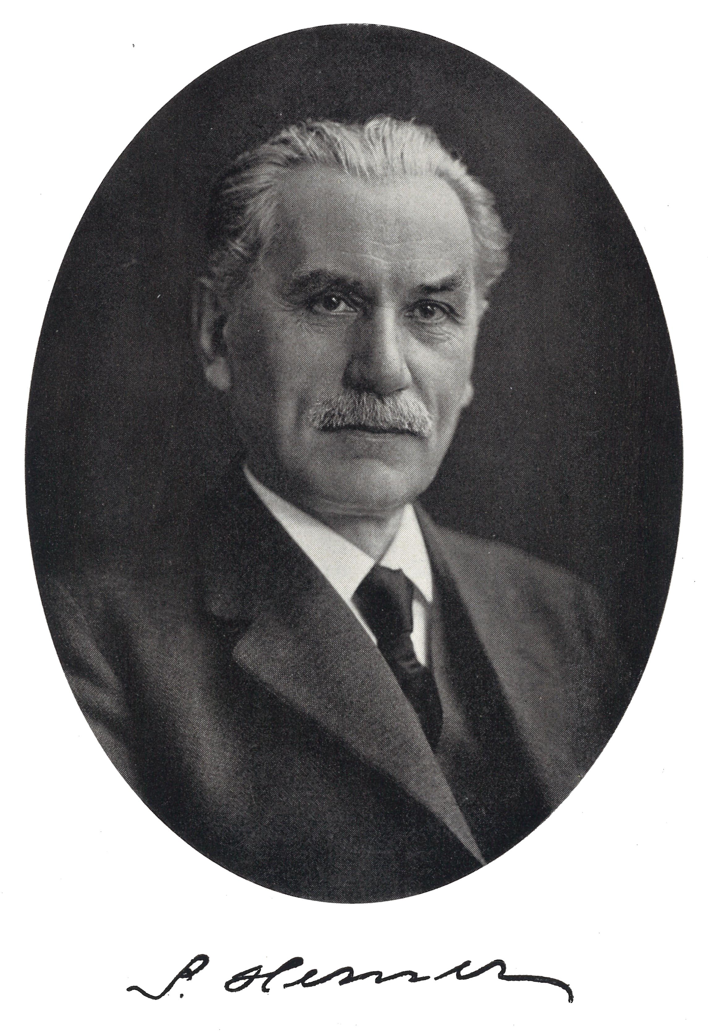 Sven Herner (1865-1949), Swedish theologian, clergyman and professor at Lund University.